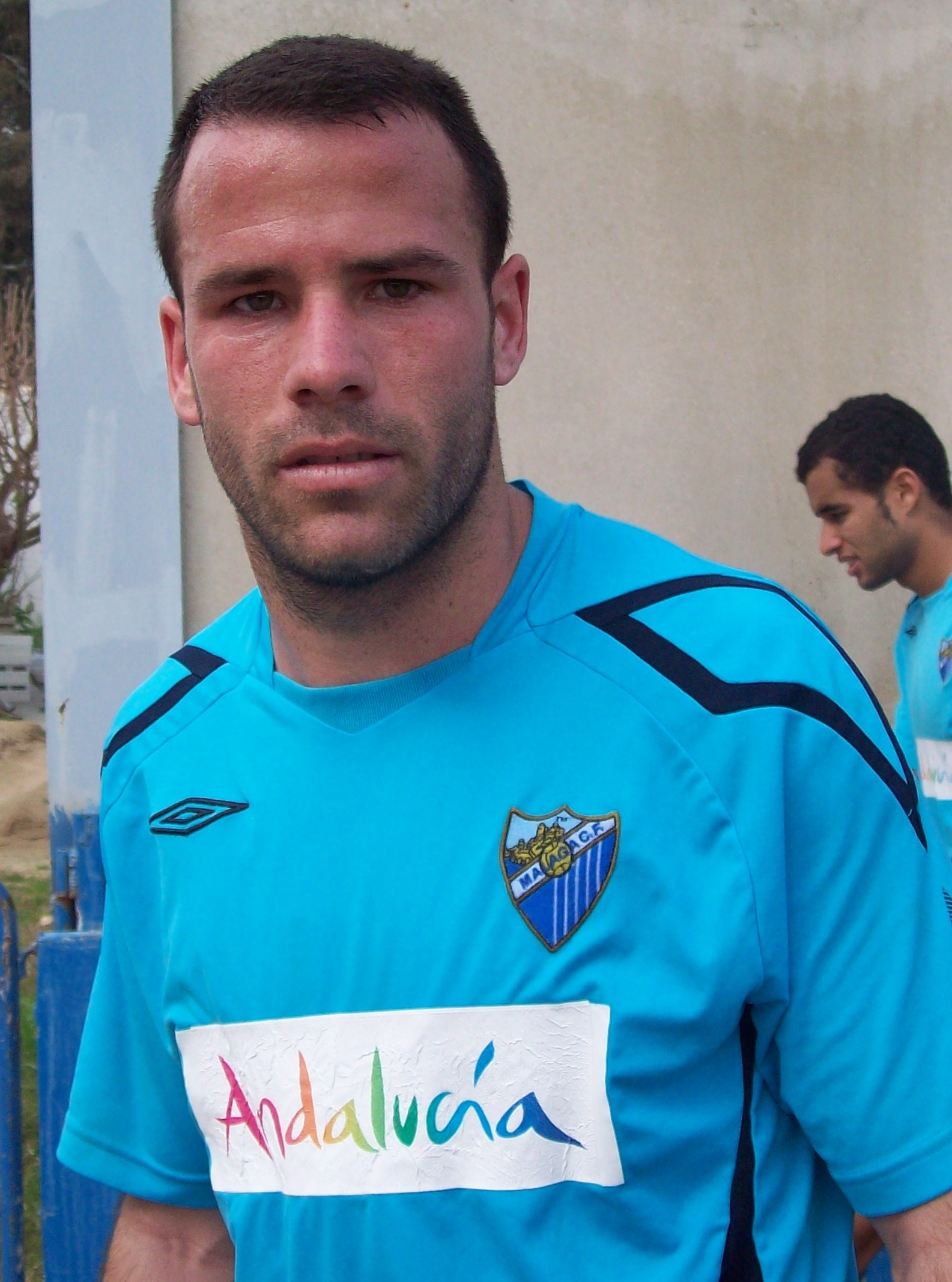 Antonio Galdeano Benítez ("Apoño"). Málaga CF player